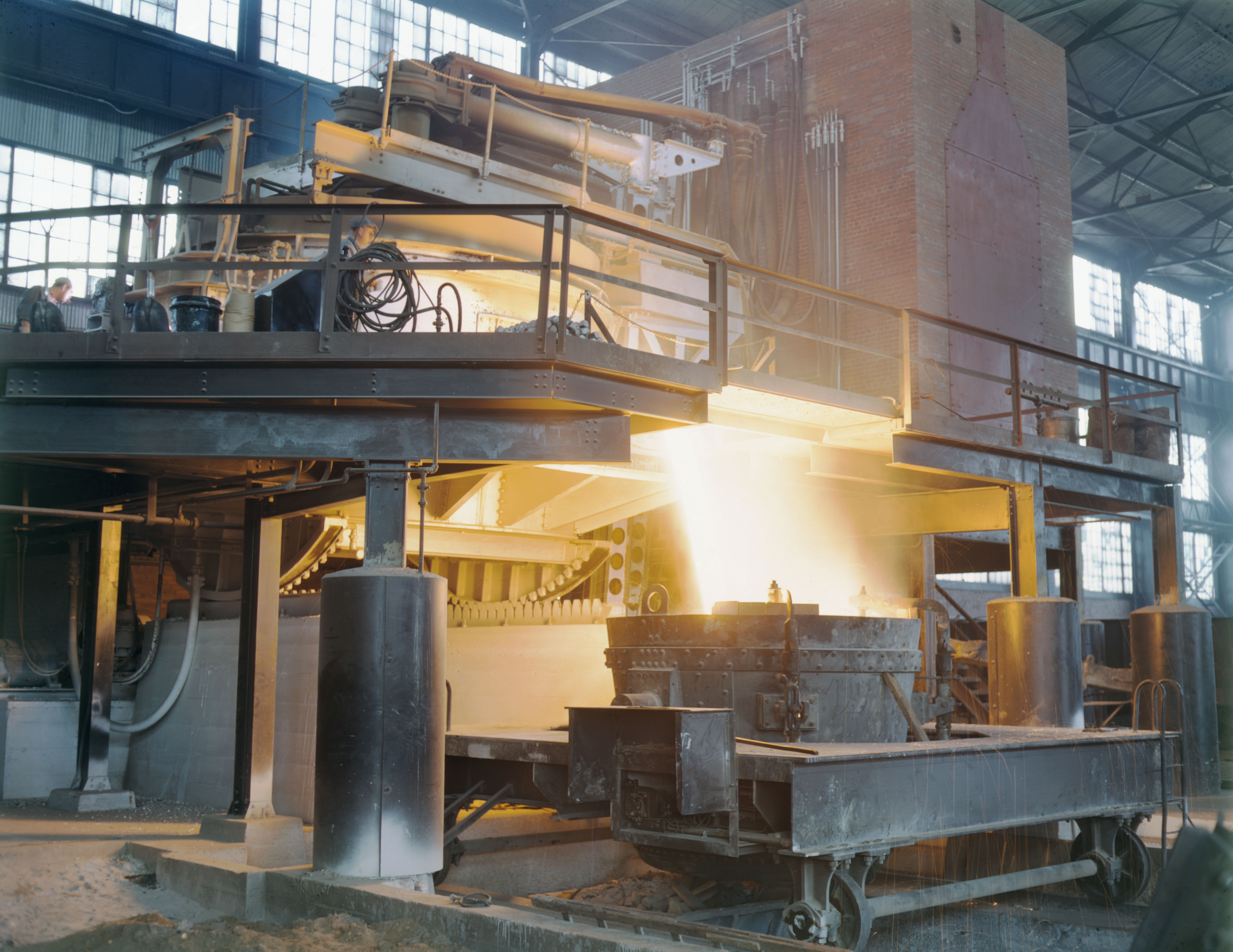 Steel pours from a 35-ton electric furnace, Allegheny Ludlum Steel[e] Corp., Brackenridge, Pa. Quality steels and alloys are produced in these furnaces, which allow greater control of temperature than other conversion furnaces. The proportion of electric furnace steel is rising, even though this process is expensive. "The furnace is tilted for the pouring." The flying sparks indicate the fluidity of the steel.